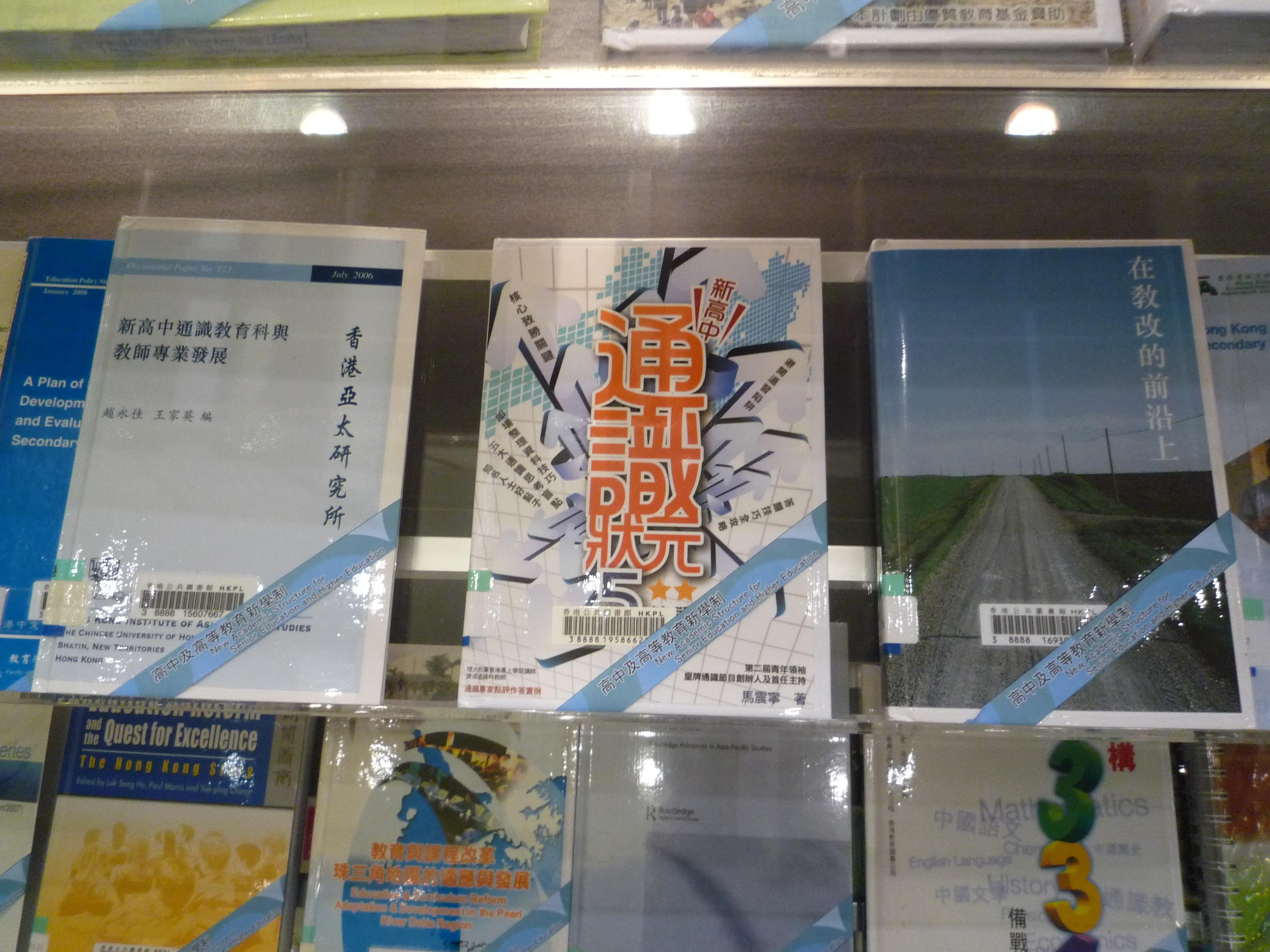 HK Central Library Book Exhibition